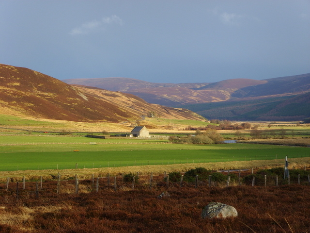 Strath of Kildonan Kildonan Church in the distance, across the river